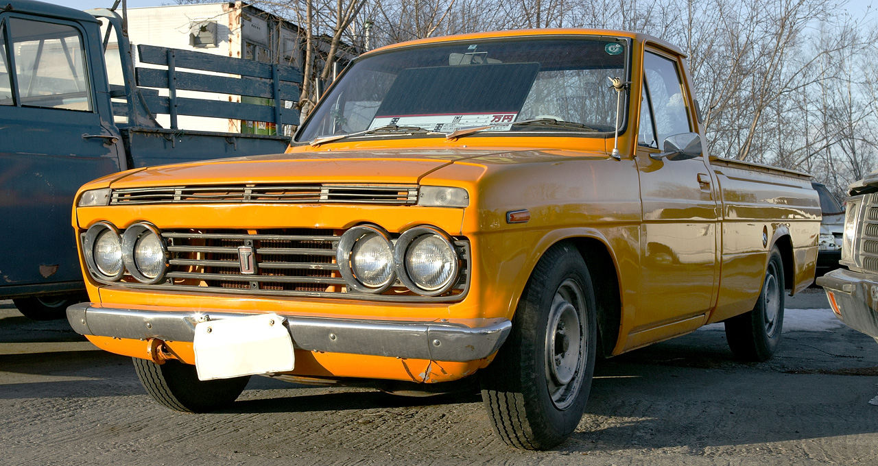 The first generation Toyota Hilux, 1500 Long ( Type RN15 )